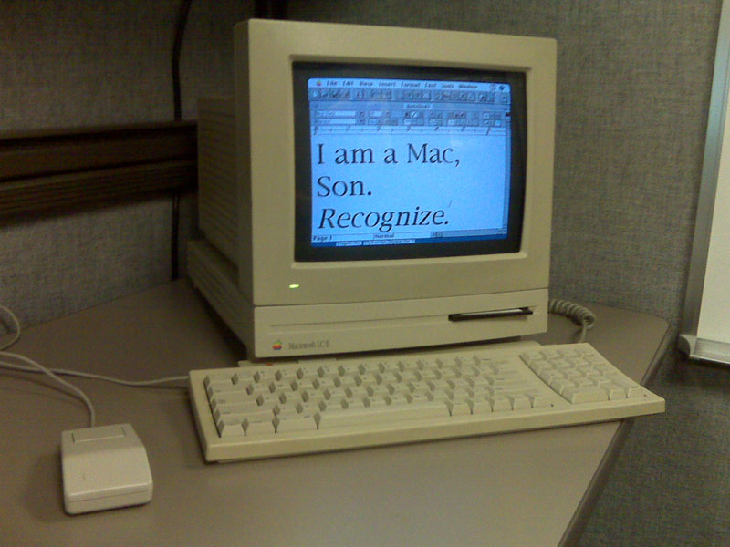 Macintosh LC II computer, circa 1992